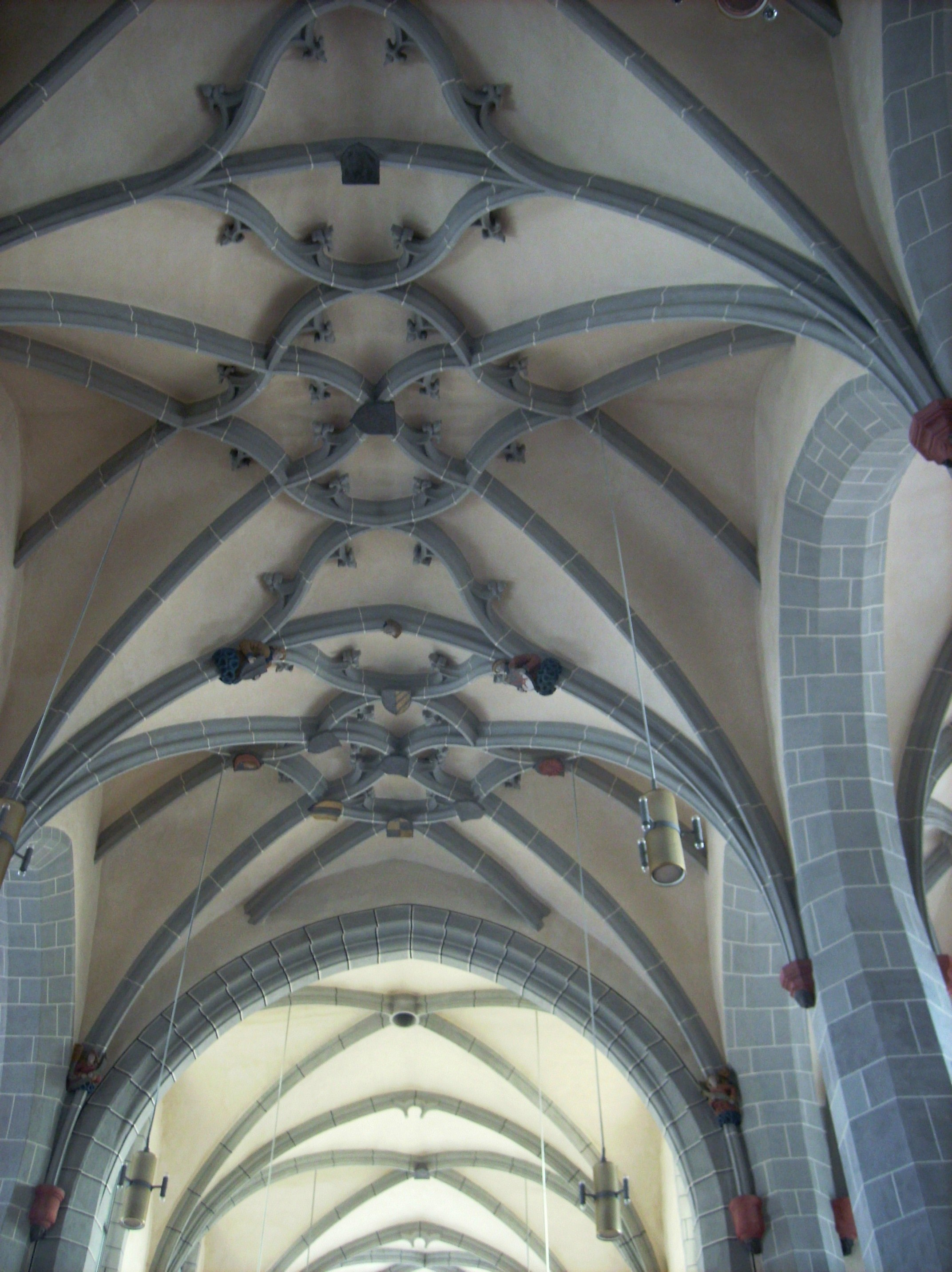 Vaults of St. Mary's Church in Borna (Leipzig district, Saxony)